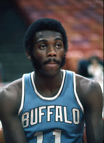 Basketball player Bob McAdoo, with the Buffalo Braves.